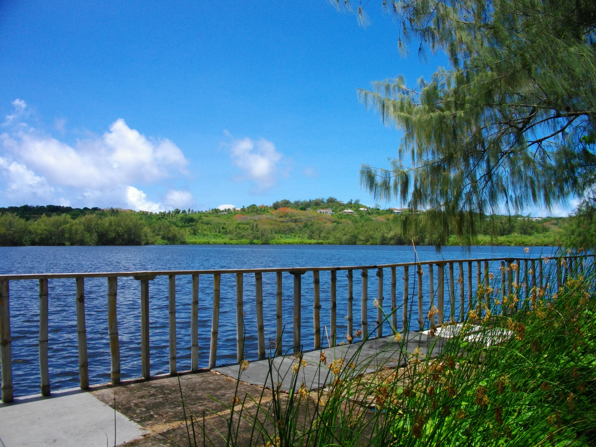 Lake Susupe